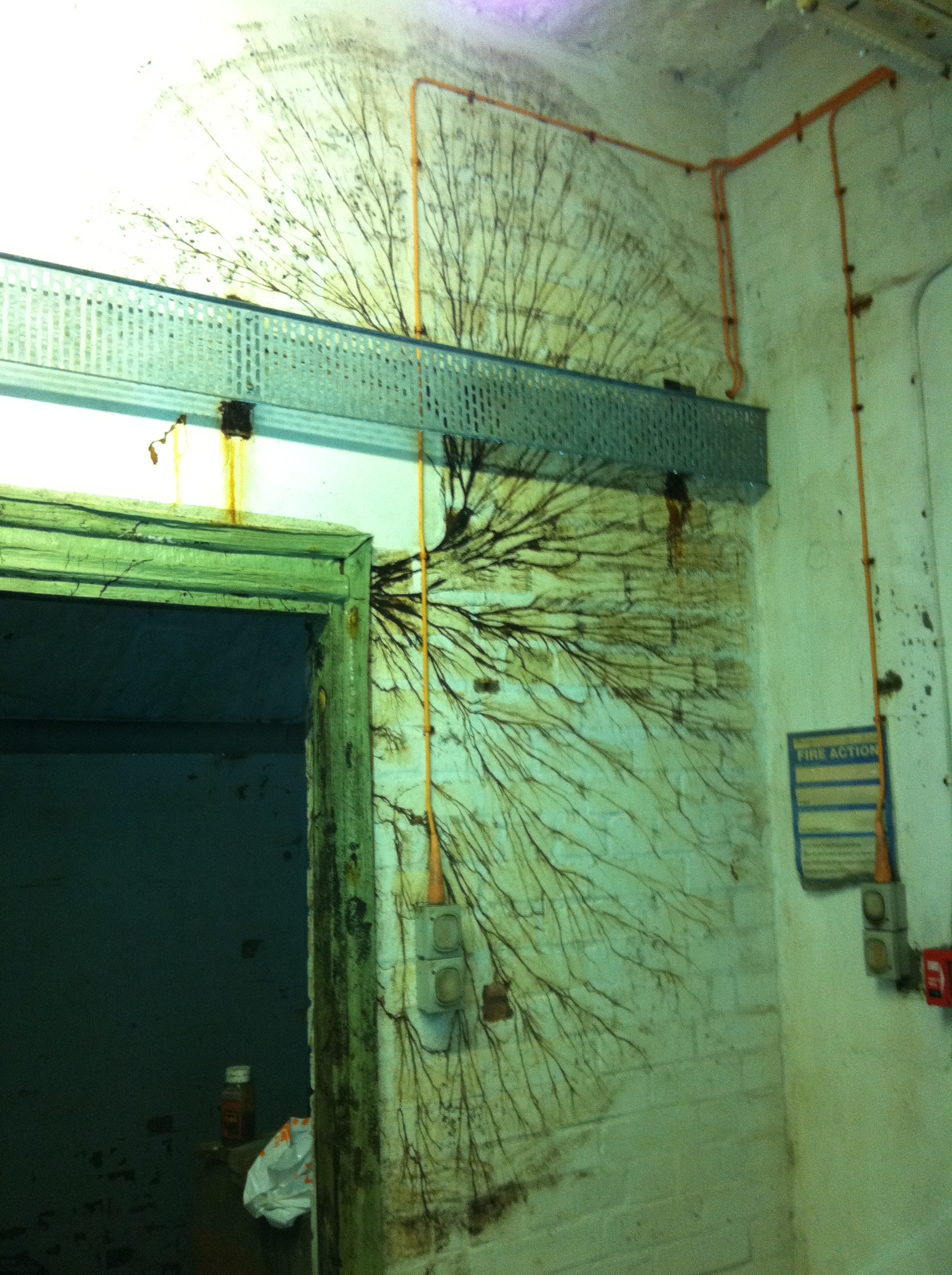 Serpula lacrymans dry-rot mycelial cords emanating from wet wood of door-frame at Paddock war rooms, Dollis Hill, London, UK, photographed in 2010